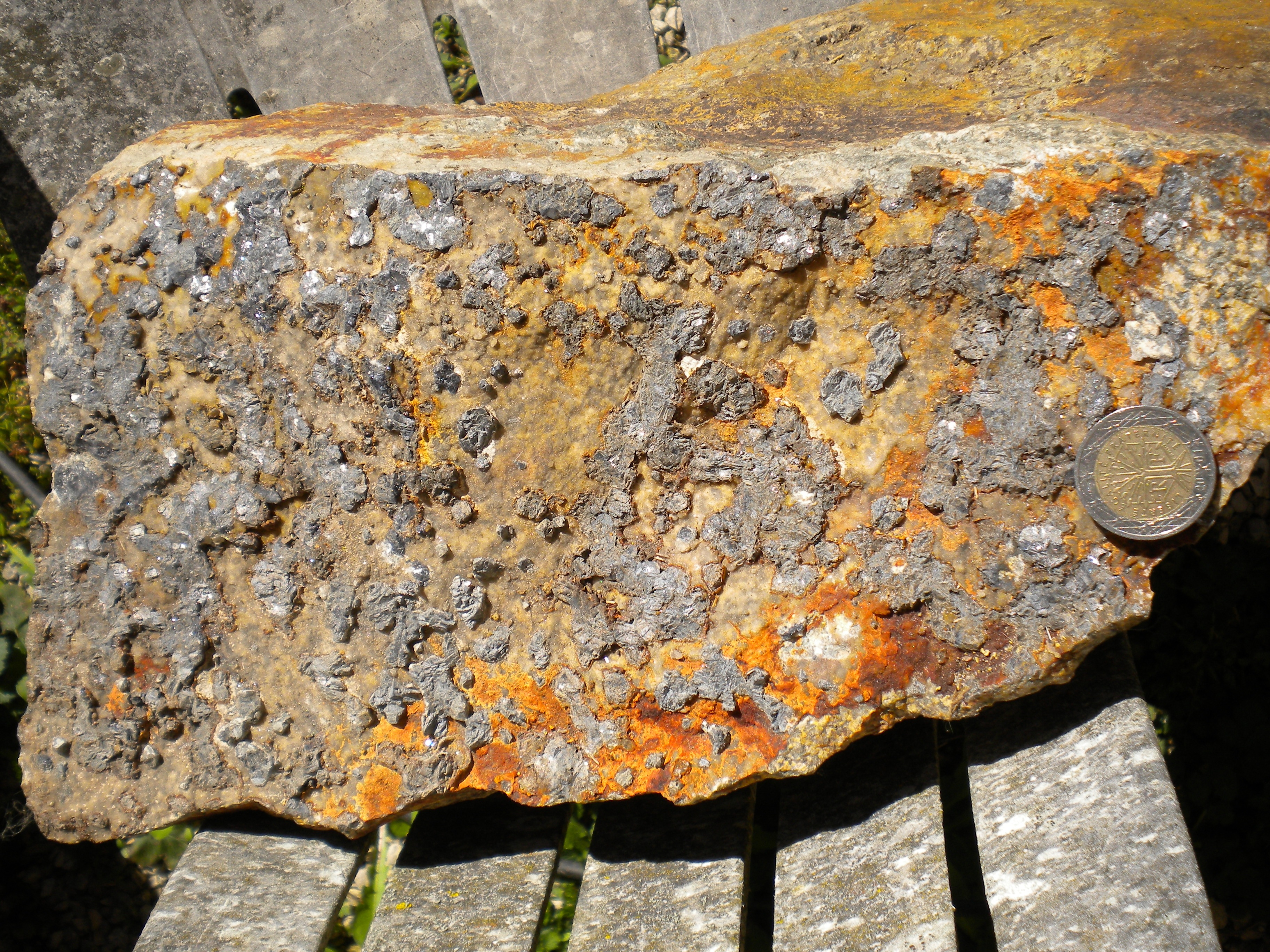 Galena coating on granodiorite from the Tabataud quarry, Nontron, Dordogne, France. The galena shows strong alteration.